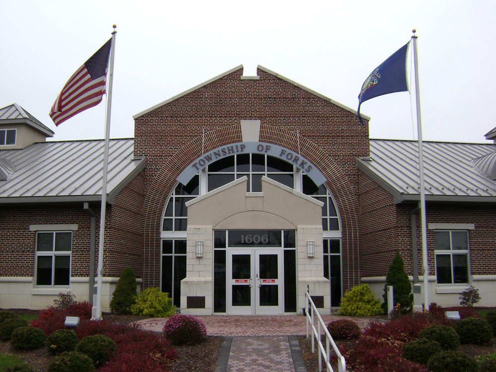 The municipal building of Forks Township, Northampton County, Pennsylvania.